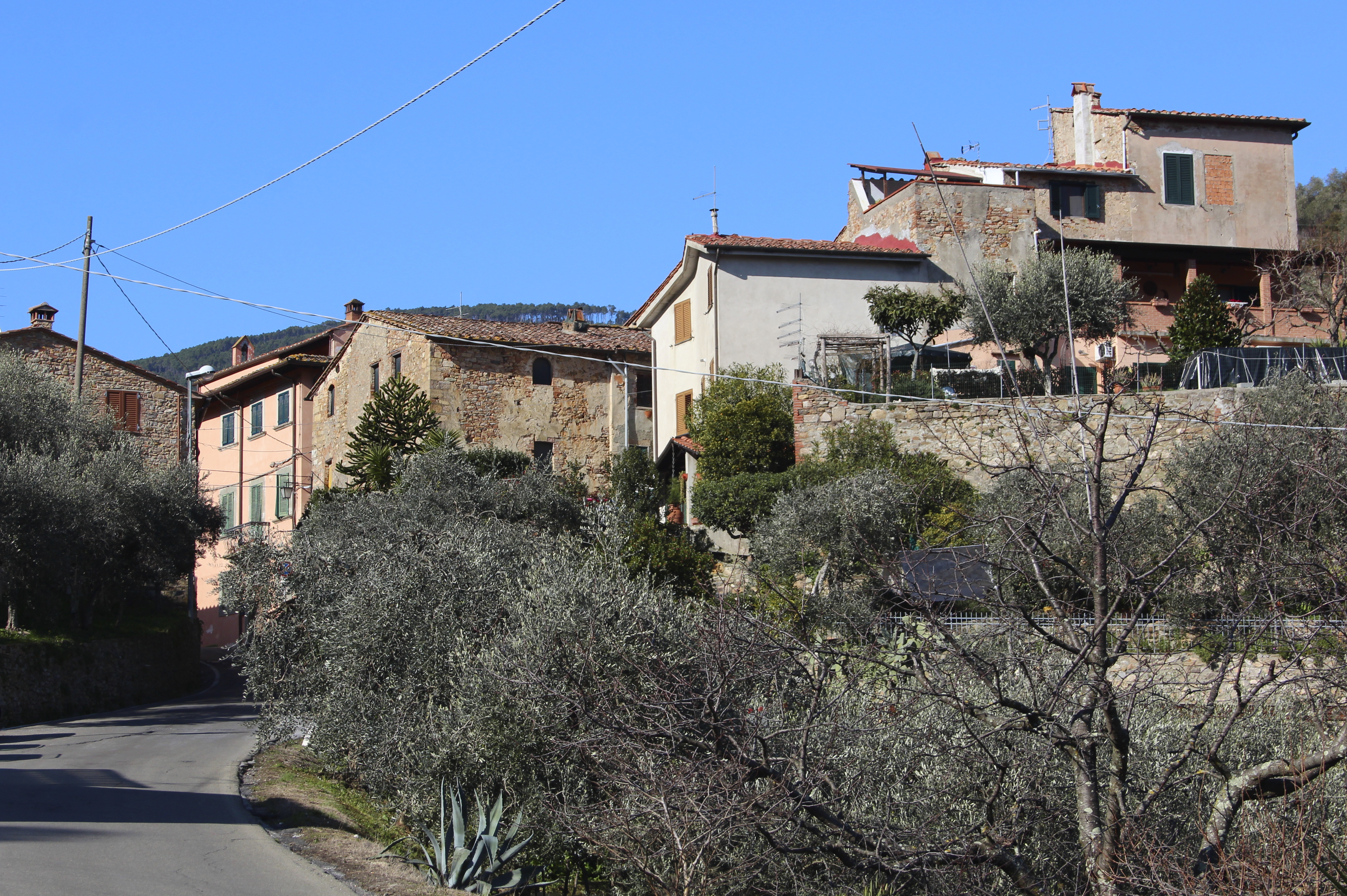 Castle Castel di Nocco, Buti, Province of Pisa, Tuscany, Italy